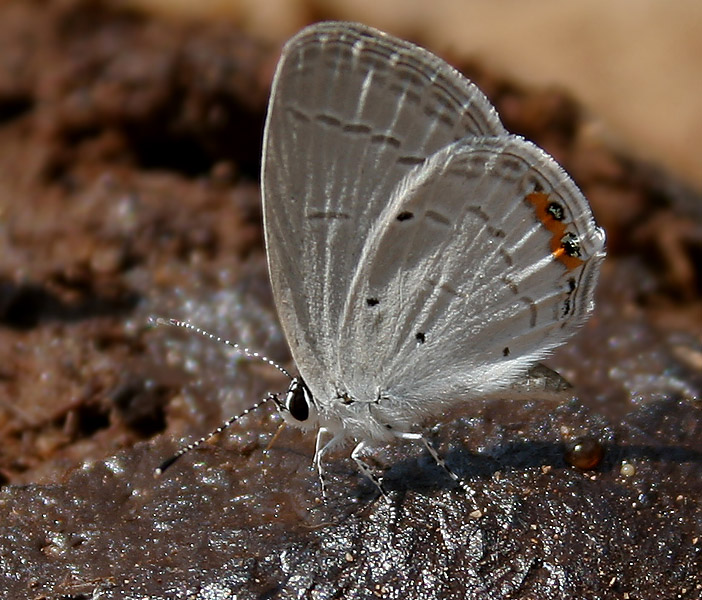 Indian Cupid Everes lacturnus in Kinnerasani Wildlife Sanctuary, Andhra Pradesh, India.